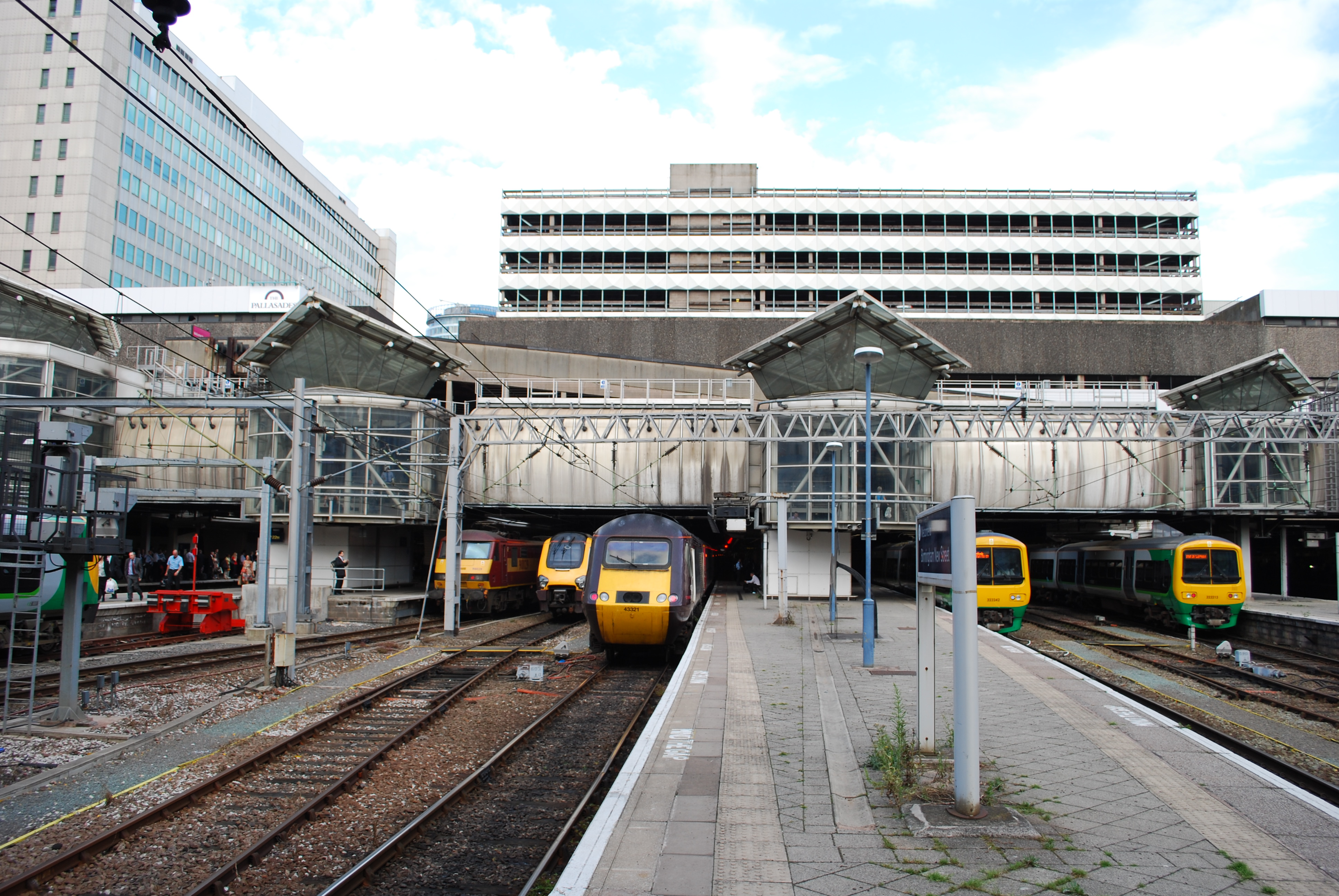 Birmingham New St, 6/09.